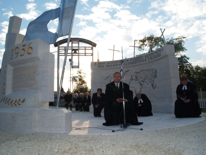 The blessing and dedication of the memorial of the 100 million victims of communism